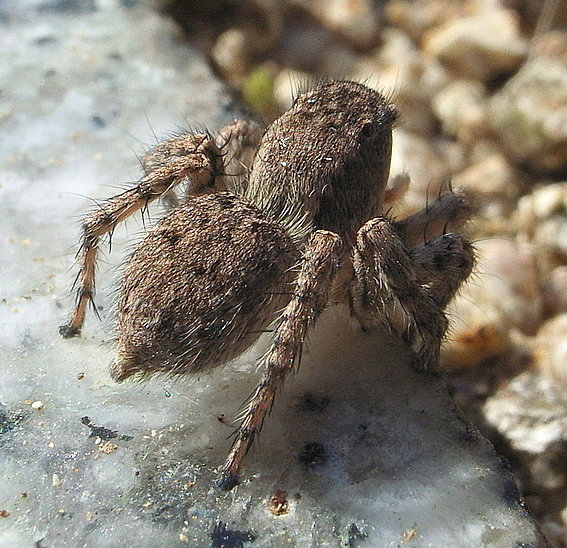 Asianellus festivus from Japan.